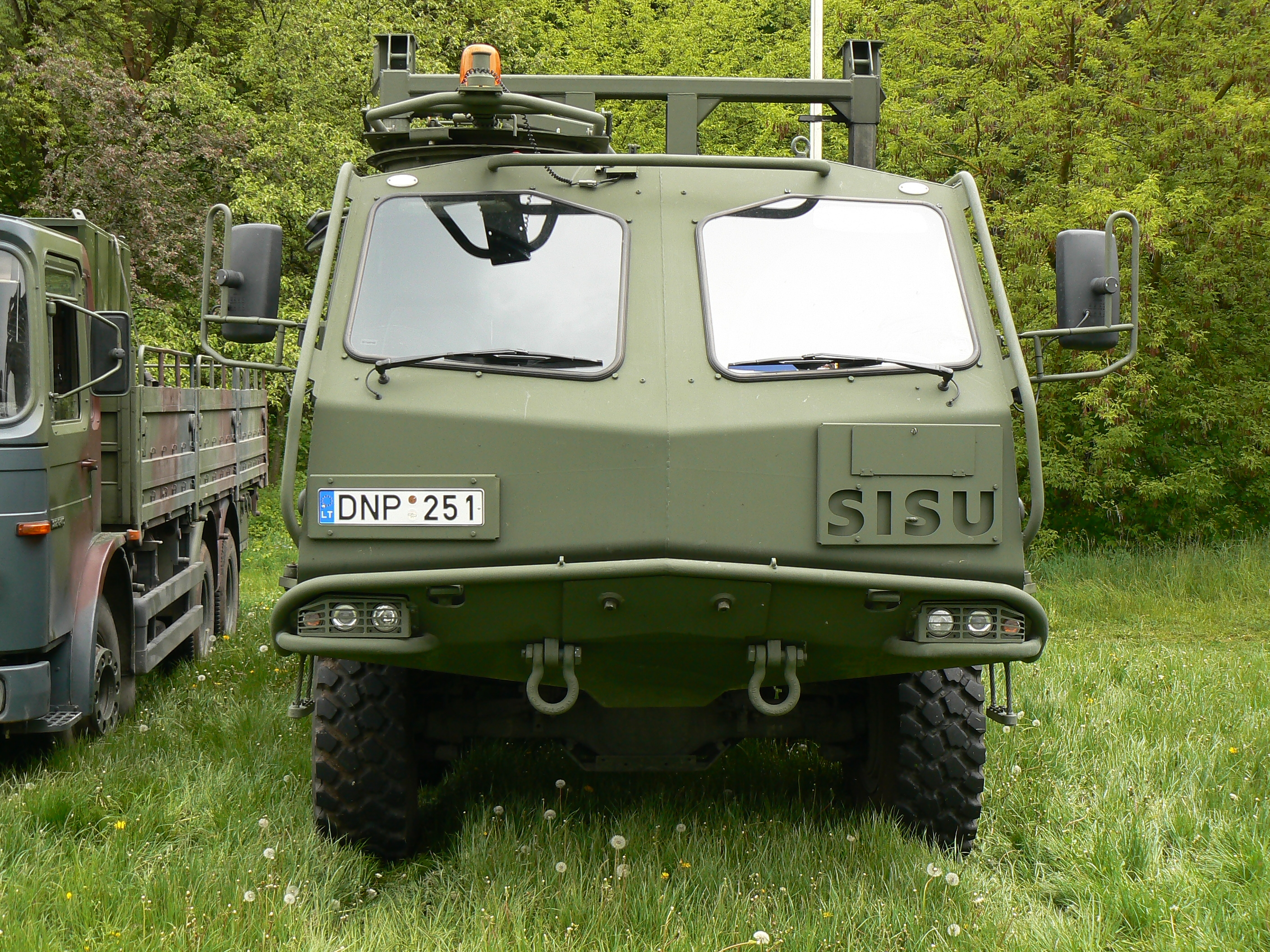 Lithuanian Armed Forces Sisu E13TP 8×8 truck. 445 HP, max. speed 110 km/h, payload 20 tons.